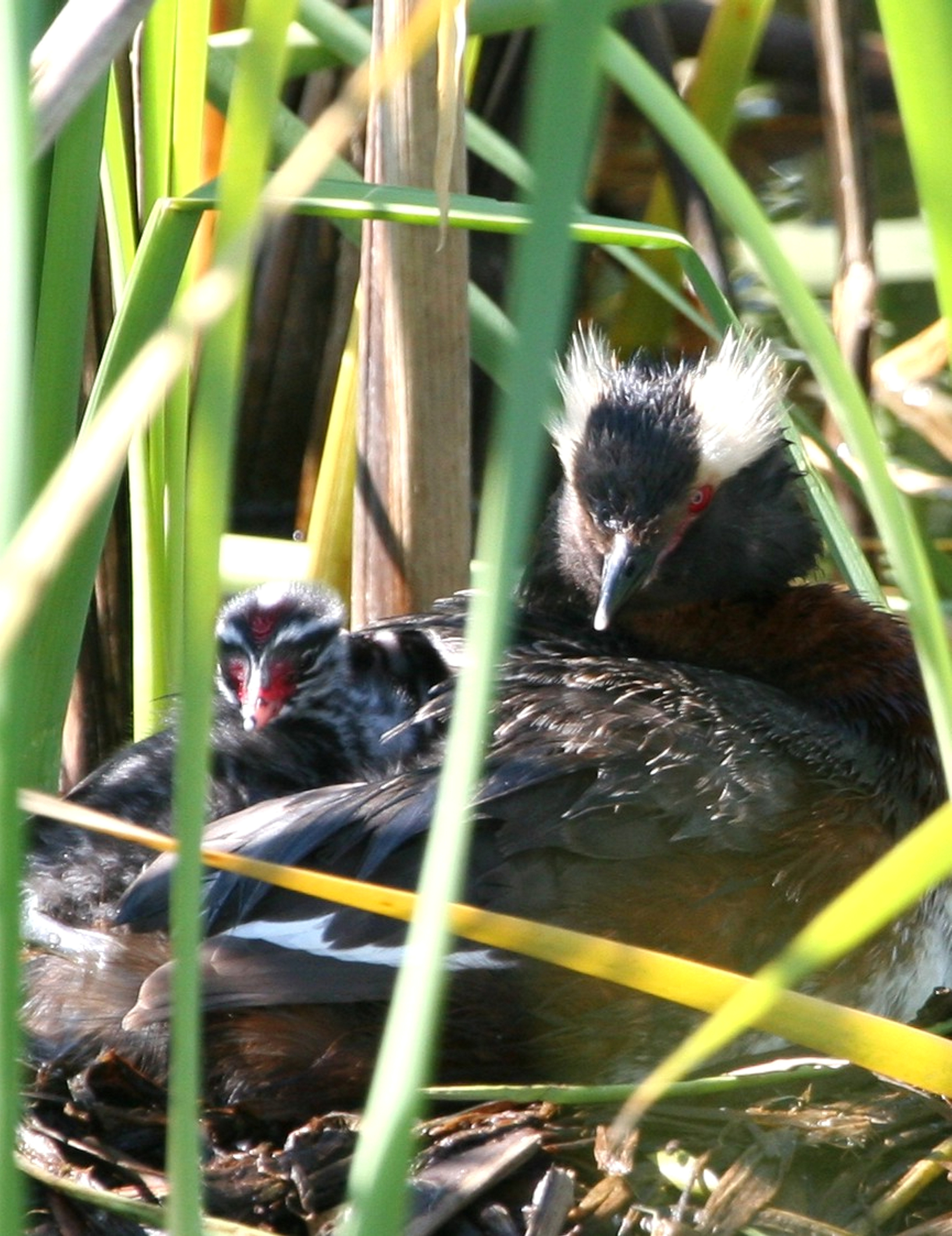 Horned Grebe (Podiceps auritus) nesting. Anchorage Coastal Wildlife Refuge, Potter's Marsh.